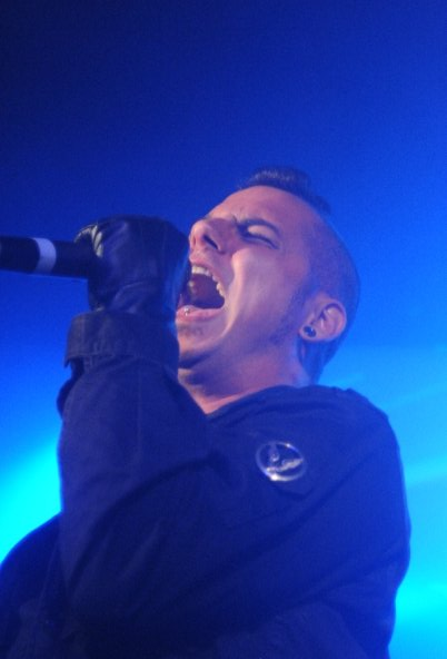 Paul Isola of Breed 77 performing in late 2009 at the Relentless Garage, London.